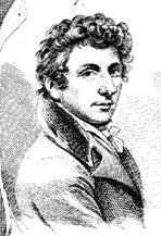 Woutherus Mol.